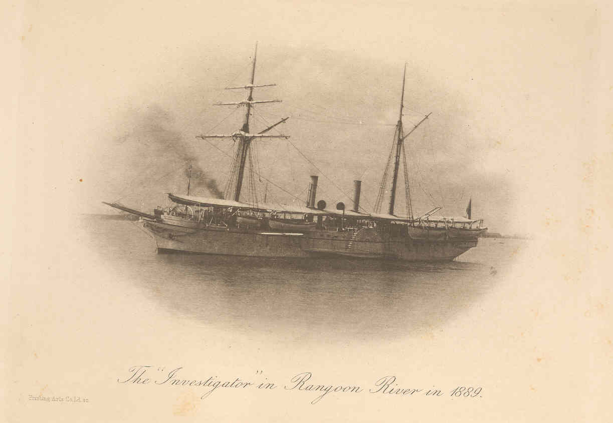 Investigator in Rangoon River in 1889 Subject: Investigator (Marine survey ship), Sailing ships Tag: Vessels